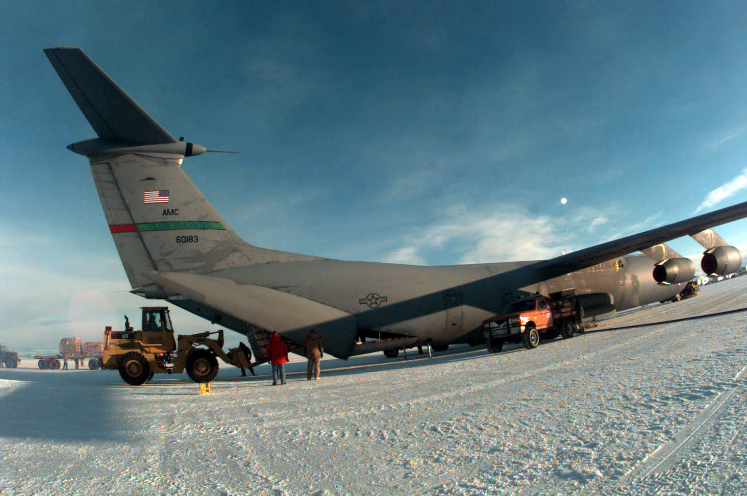 In this 1997 photo, cargo is offloaded from a C-141B Starlifter from McChord Air Force Base, Wash., while parked on a runway of ice here. The cargo and passengers transported by C-141s as part of Operation Deep Freeze were flown from New Zealand to Antarctica in support of scientific research at McMurdo and the South Pole.